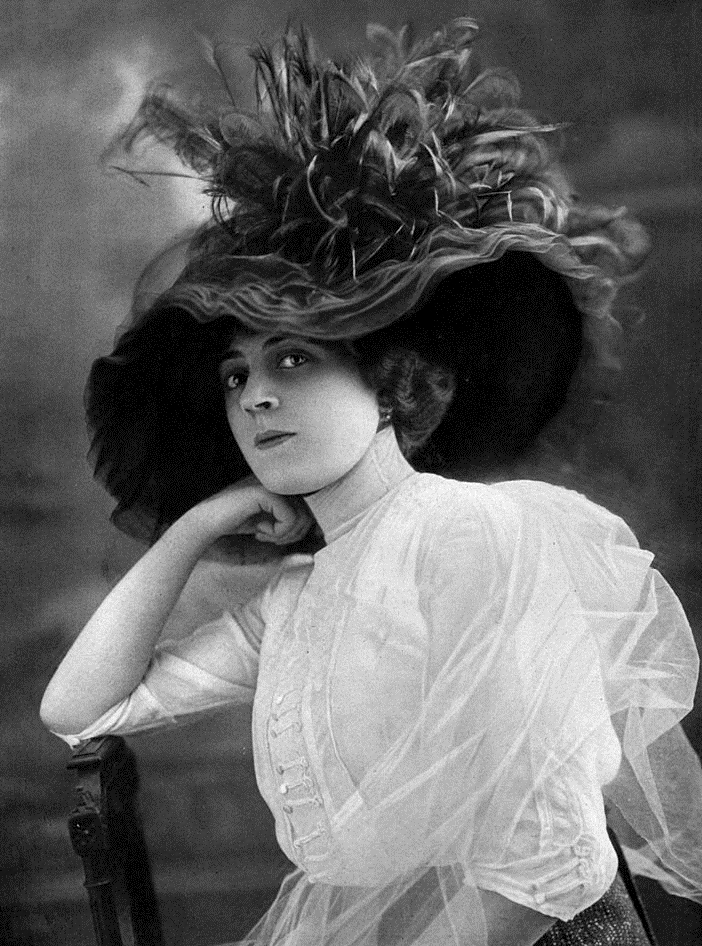 Miss Ida Rubinstein wearing a hat of Mrs. Lentheric extracted from the newspaper 'The theater' in July 1912